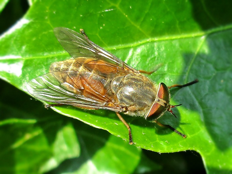 Hybomitra ciureai (Diptera sp.) female, Giethoorn, the Netherlands